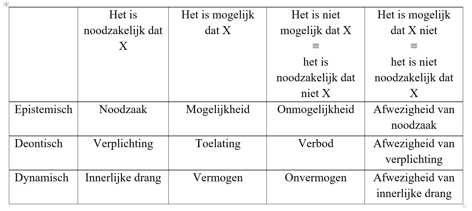 12 semantic modal categories based on Smessaert et al.